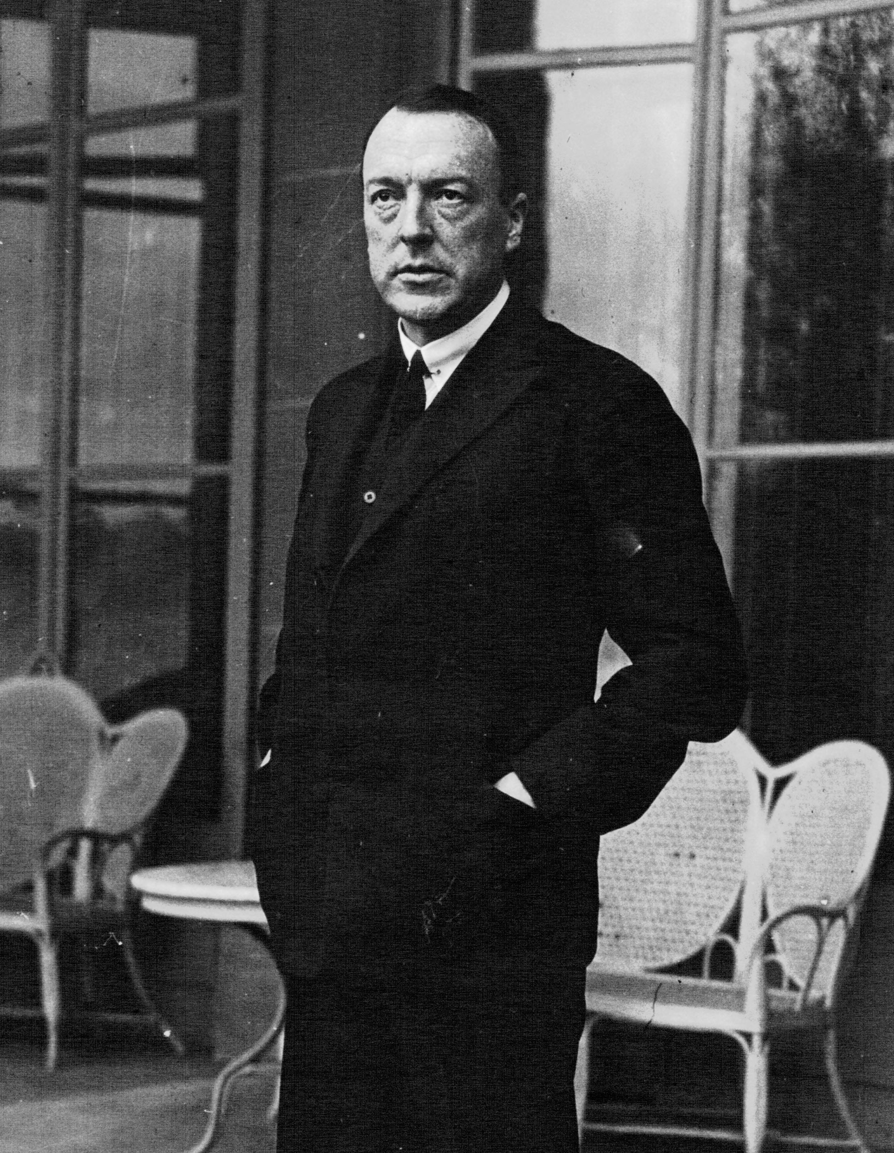 Dutch lawyer and politician Joost Adriaan van Hamel (1880-1965) as High Commissioner of the League of Nations in Danzig (Gdańsk) in 1927.